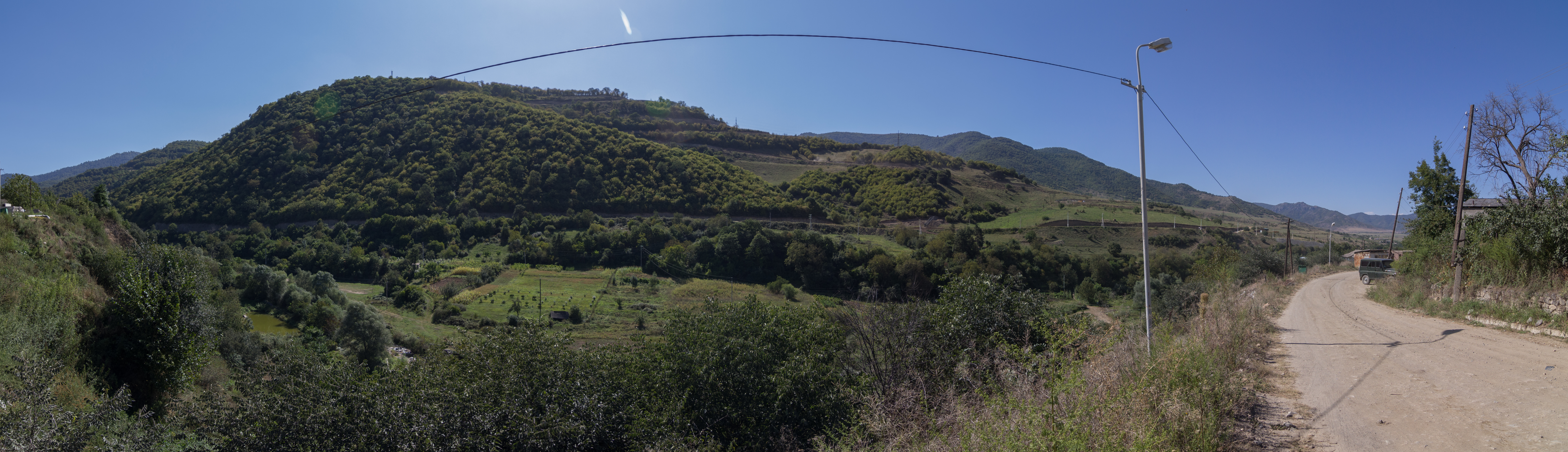 This photo is taken a few kilometers up the main road past the main entrance of the Teghut Copper-Molybdenum Mine in Armenia's northern Lori province. The mine property is opposite.